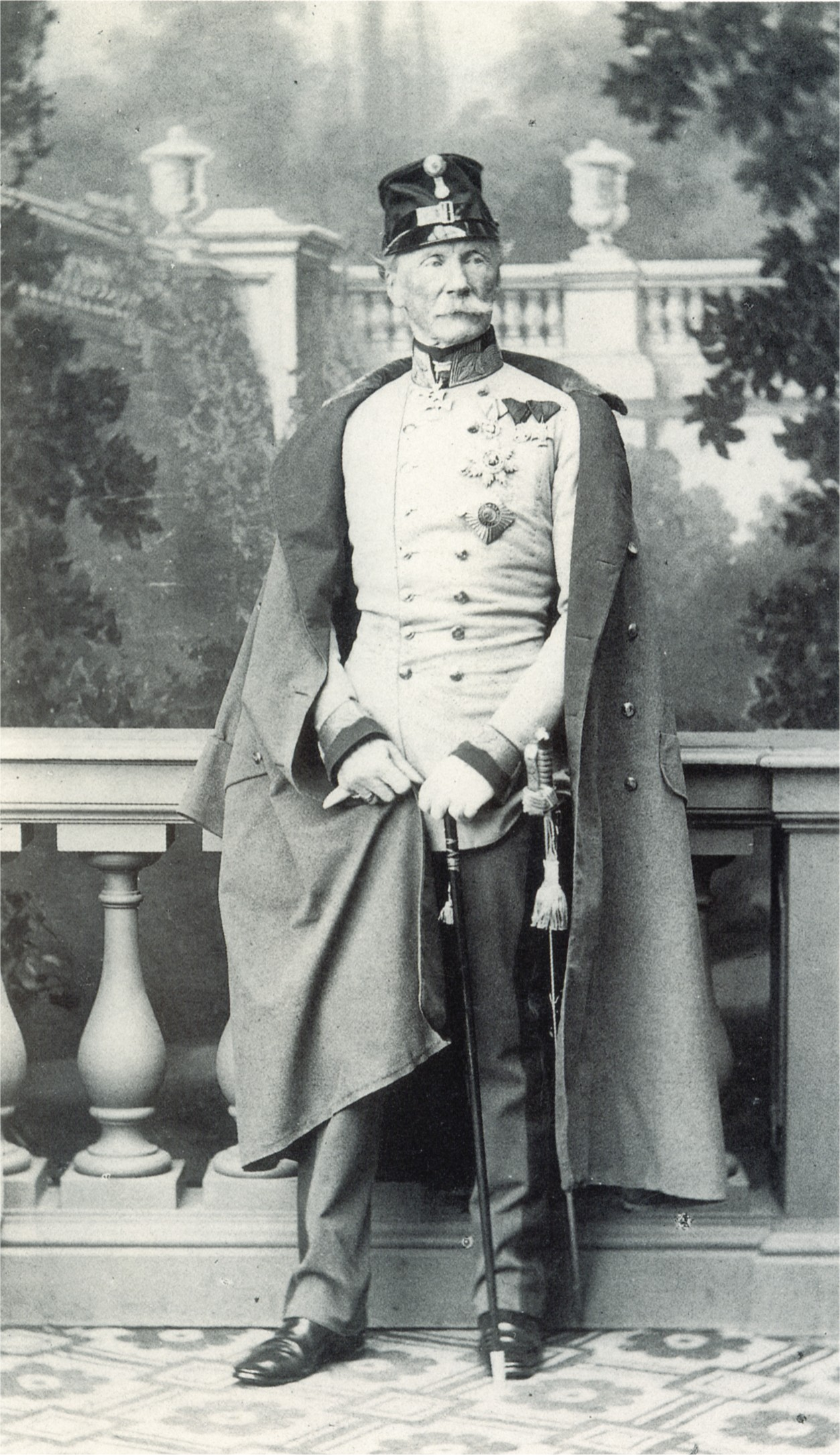 The austrian field marshal Heinrich Hermann Joseph Freiherr von Heß